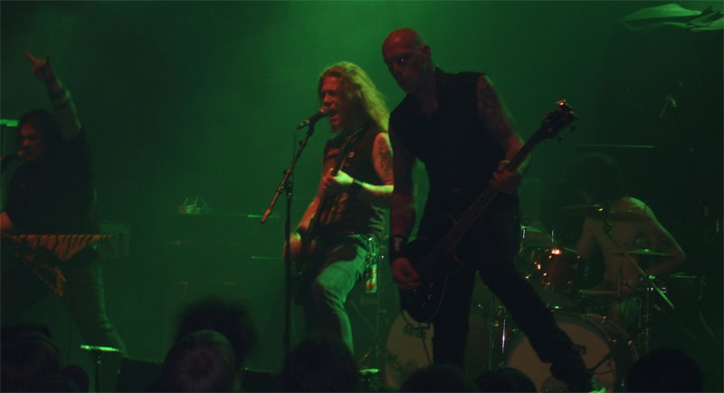 Sanctity playing live at Sentrum Scene in Oslo, Norway